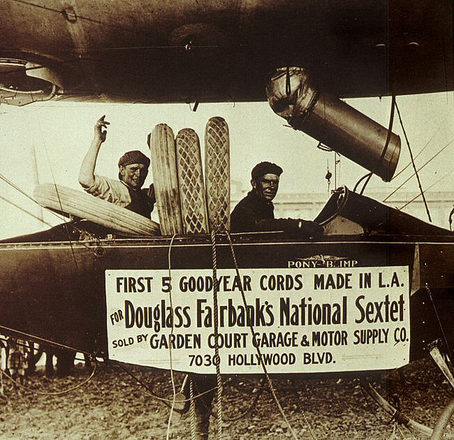 Pony Blimp advertising tires sold to Douglass Fairbanks for us on his car, a "National Sextet"